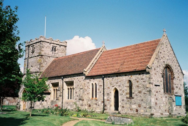 Church of England parish church of St. John the Baptist, Spetisbury, Dorset: view from the southeast